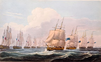 The Theseus, Captn J Beresford, leading the British squadron of 4 sail of the line, near the Isle of Grouais, in the face of the Brest fleet of 8 sail of the line, obliging them to haul their wind & preventing their joining the l' Orient squadron then laying ready to put to sea, Feby 24th 1809. From a sketch by J. Beresford. Engraved by Frederick Christian Lewis. (F. C. Lewis). Taken from the Naval Chronology of Great Britain; Or, An Historical Account of Naval and Maritime Events from the Commencement of the War in 1803 to the End of the Year 1816 ... by James Ralfe. Volume II, Pages 122-123[1][2]